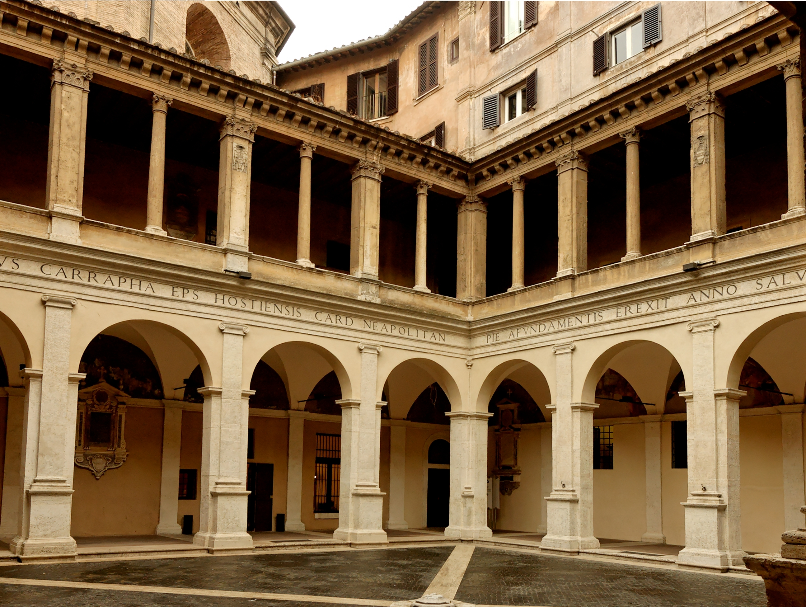 Cloister of Santa Maria della Pace in Rome, designed by Bramante (1503).